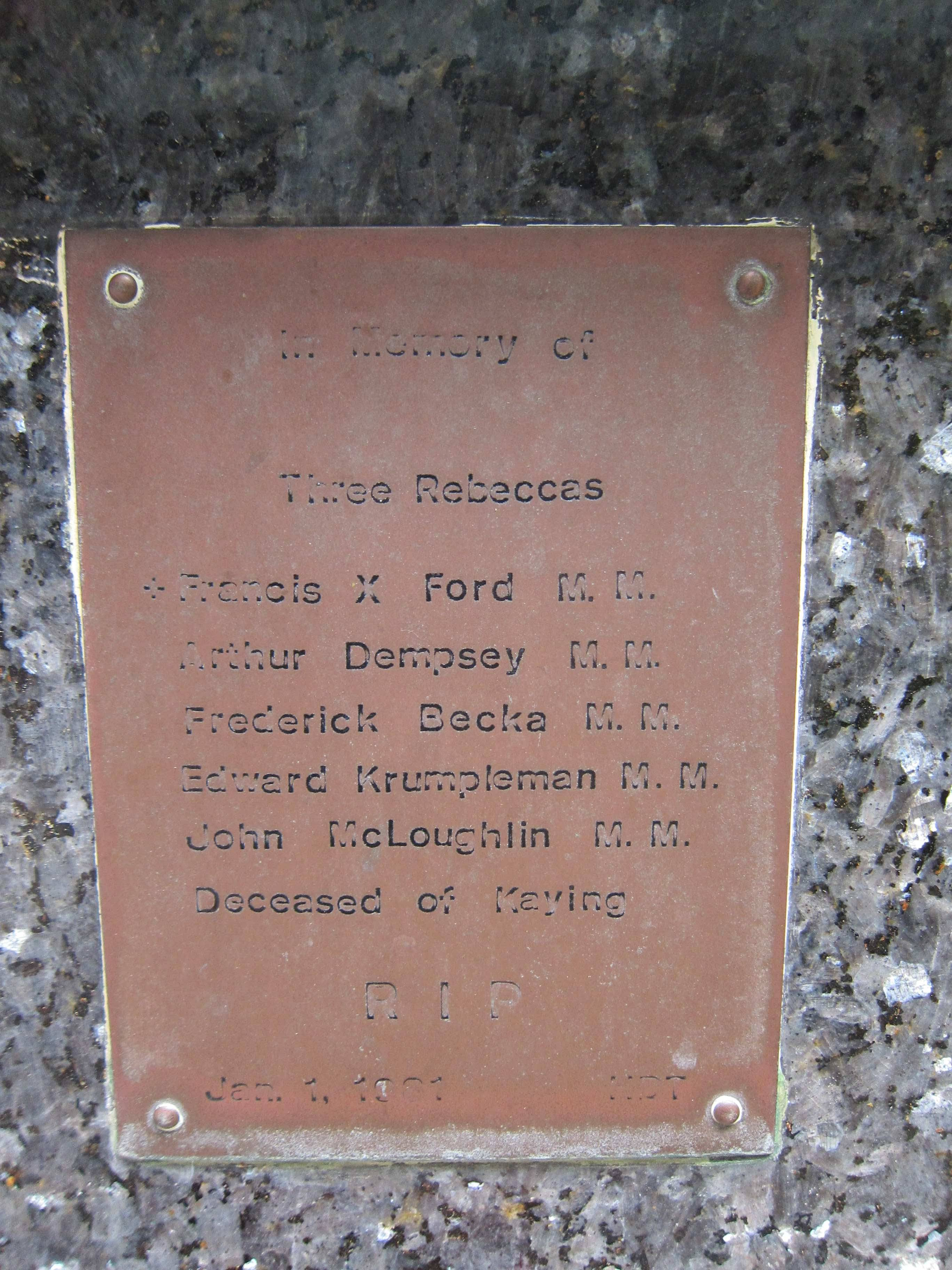 A monument in Maryknoll Secondary School, Hong Kong, dedicated to Edward Leo Krumpelmann, among other deceased.